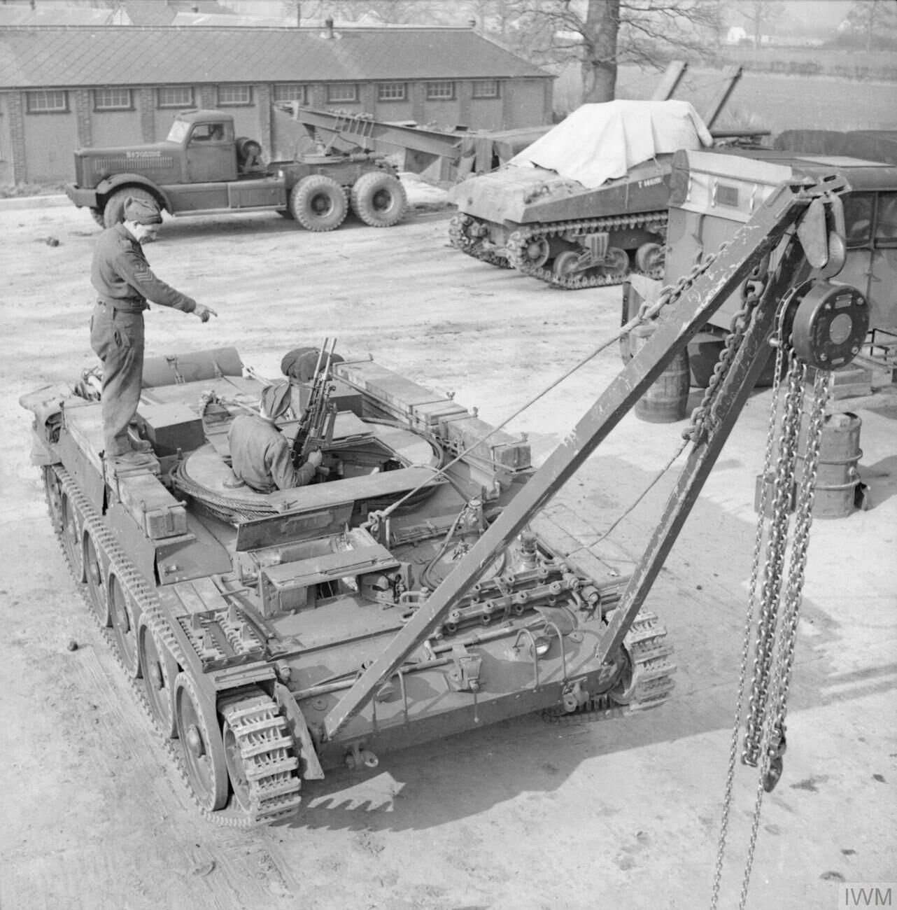 THE BRITISH ARMY IN THE UNITED KINGDOM 1939-45; Crusader ARV with A-frame jib and twin Bren AA mount.